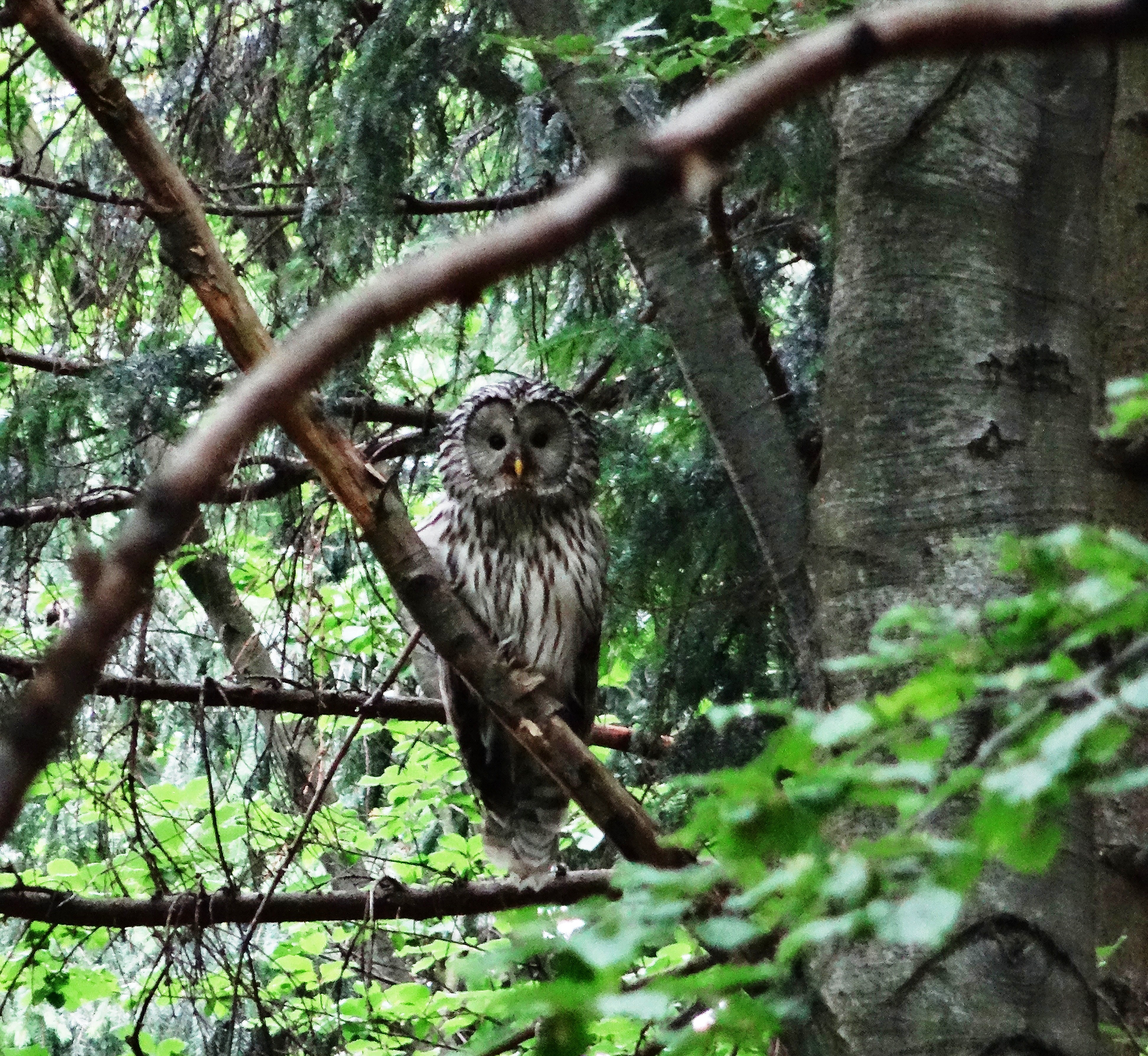 Ural owl